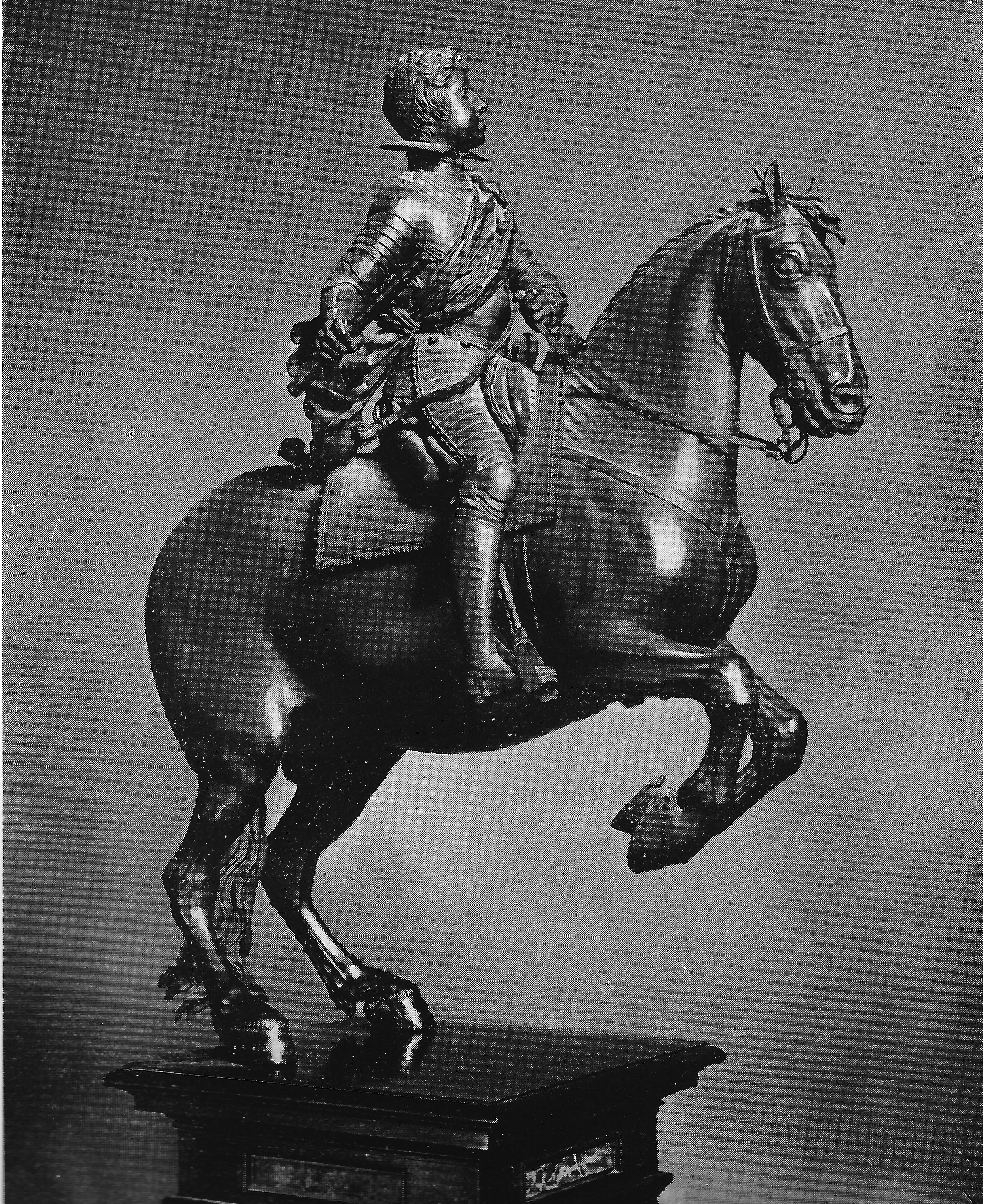 Statue équestre en bronze représentant Louis XIII enfant par Pierre de Francqueville